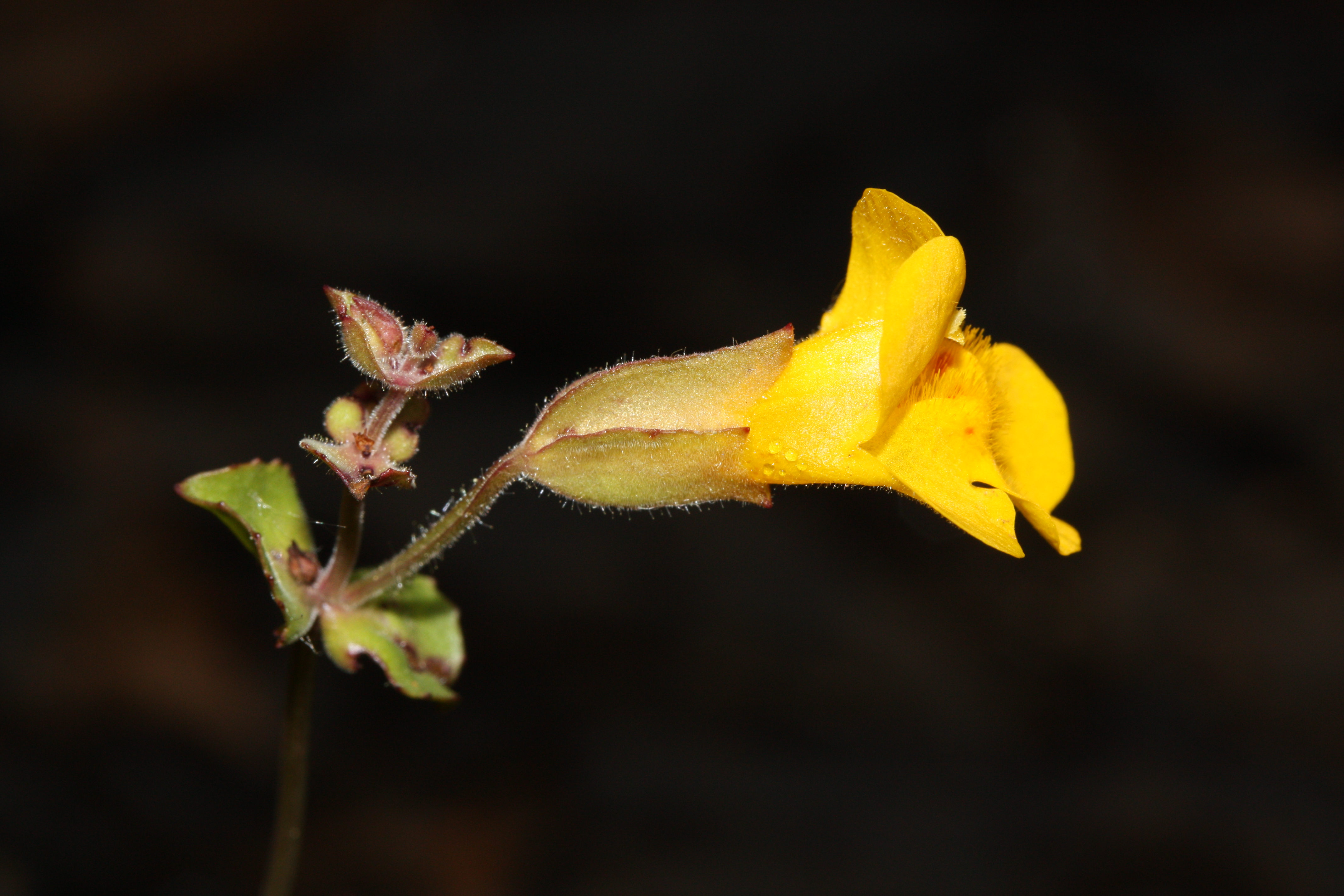 Seep Monkey-flower